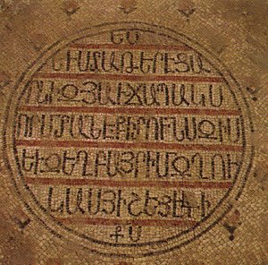 Armenian inscriptions at Musrara quarter, north of the Damascus Gate of the Old City of Jerusalem. It is the dedication of the building: 1: I 2: Ewstat‘ the priest l 3: aid this mosaic. 4: (You) who enter this house, 5: remember me and my brother L 6: uke to 7: Christ.